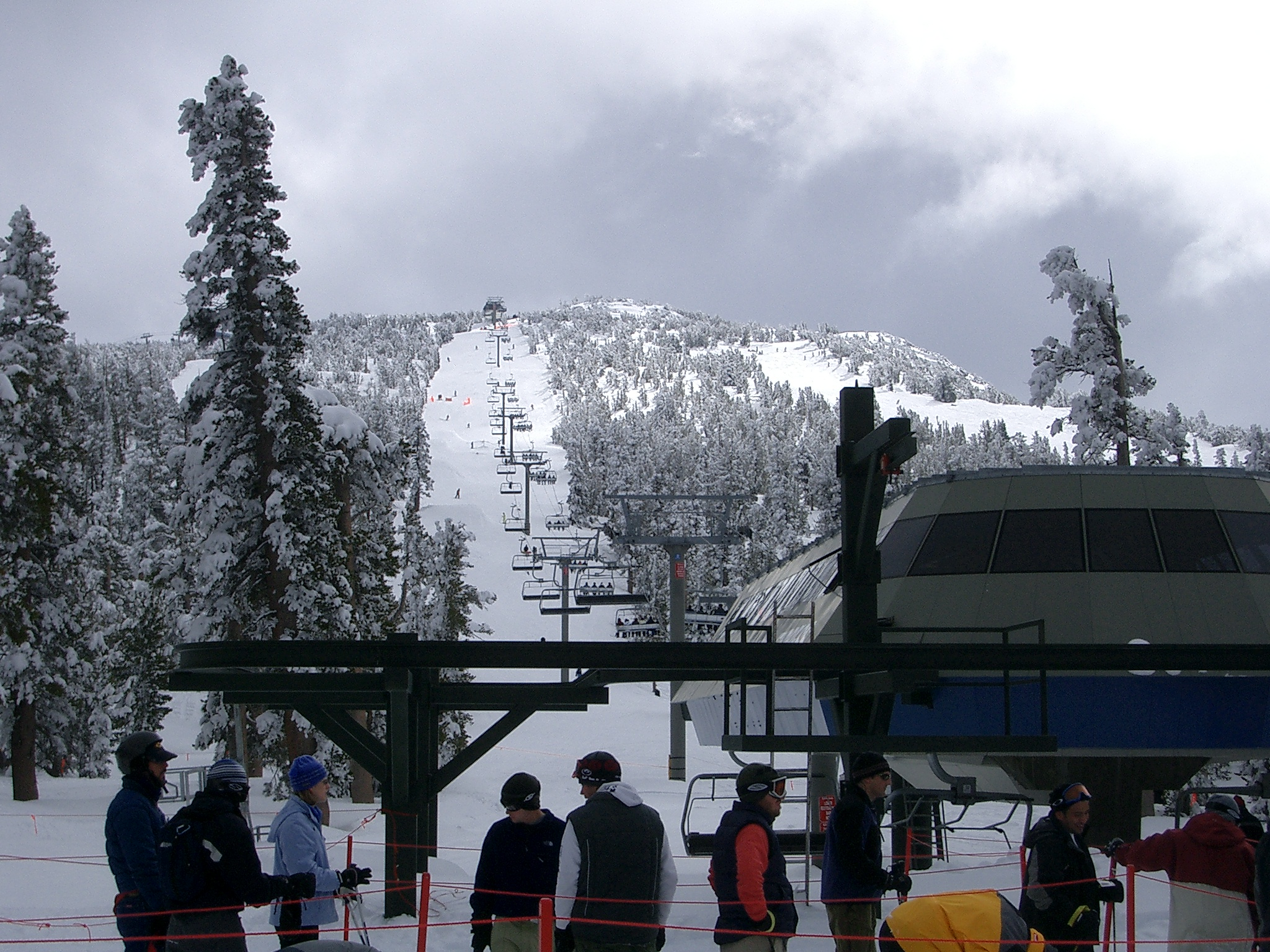 Heavenly Ski Resort ski lift, with base at 9136 foot (2785 m) elevation. Photo by User:ChrisRuvolo. Originally from